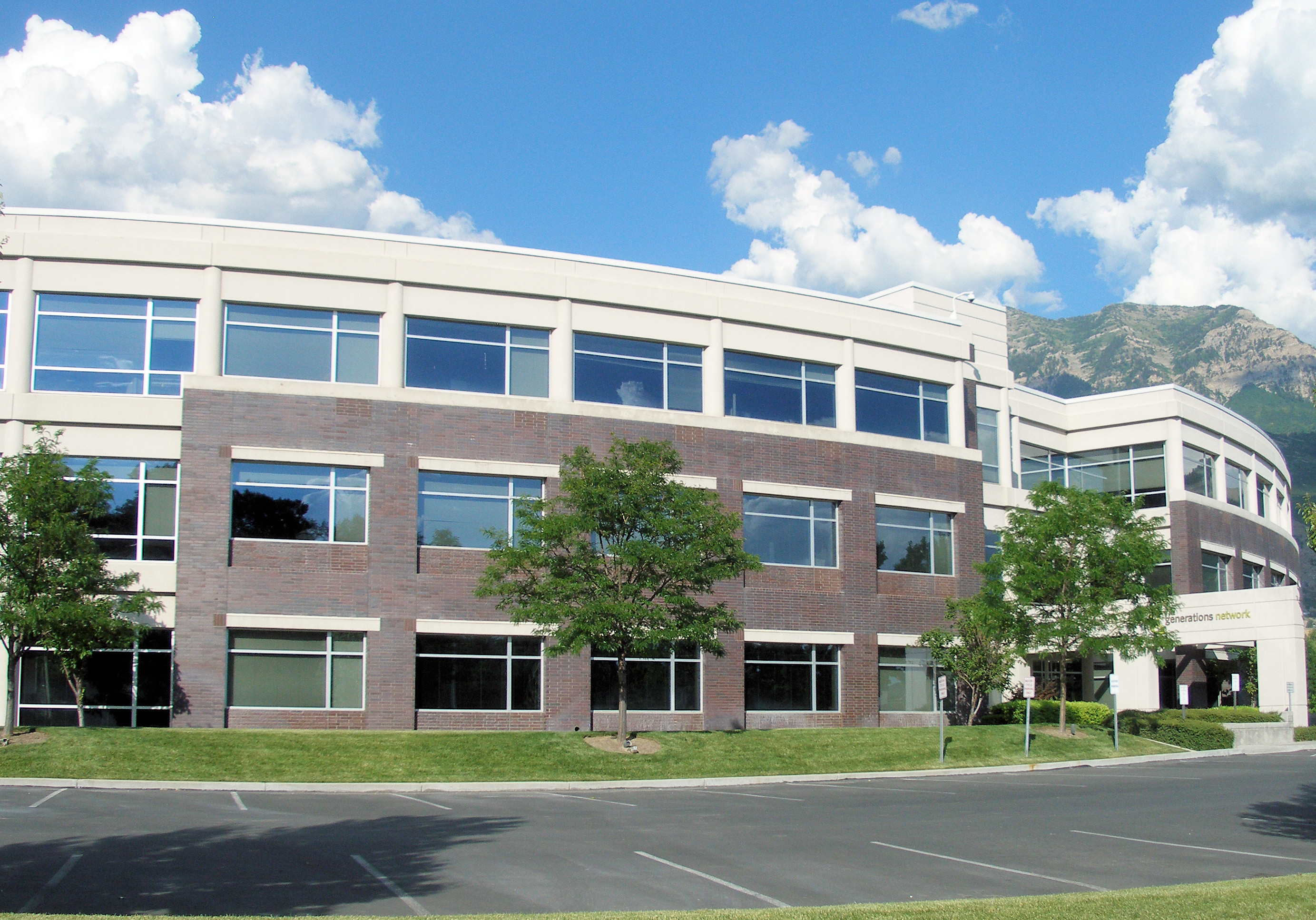 Headquarters of (formerly "The Generations Network") in Provo.